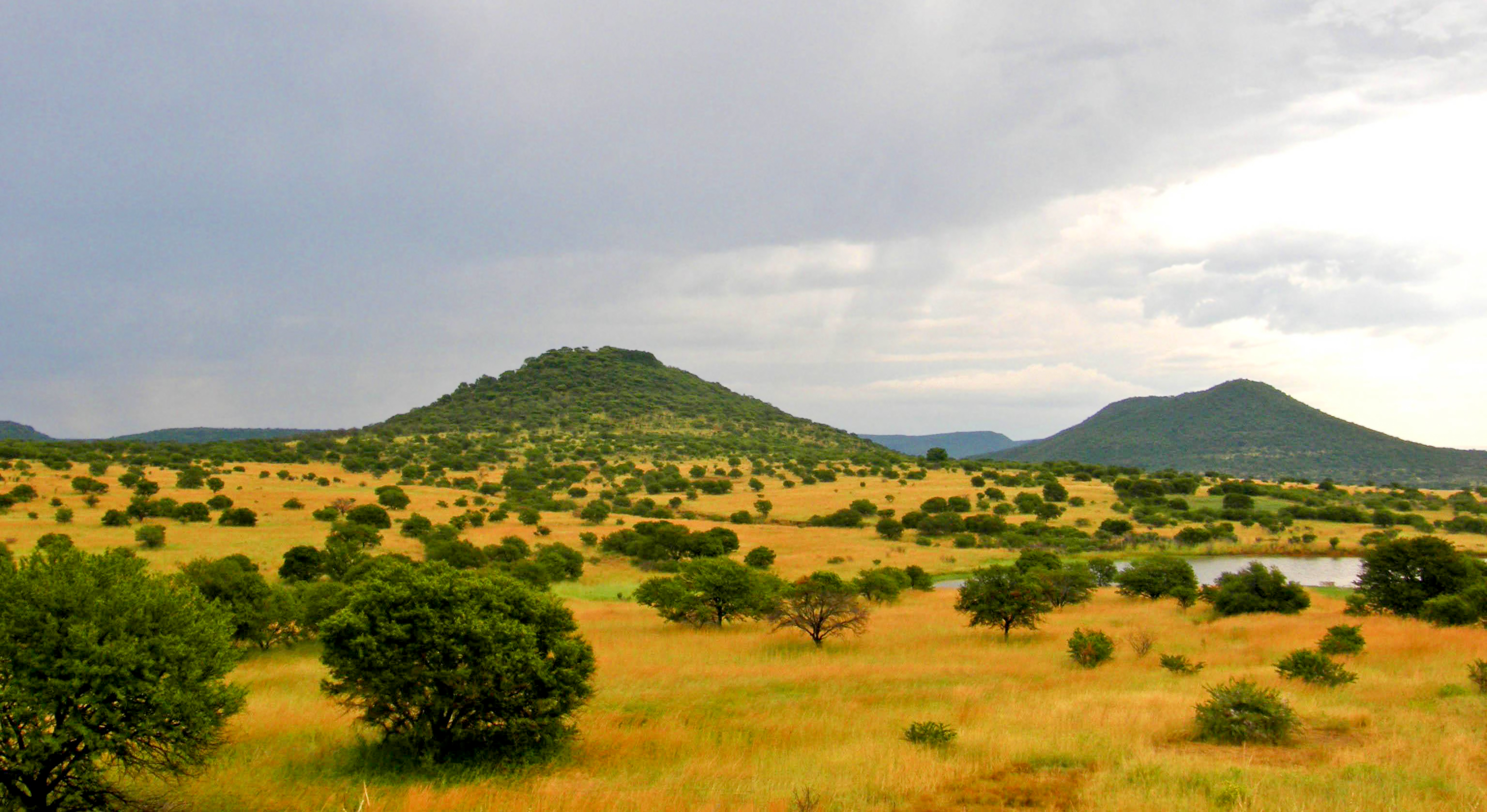 Midland hilly savanna near the South African city of Pietermaritzburg